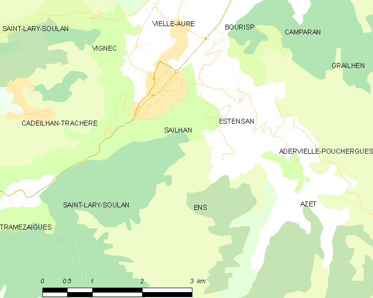 Map of French municipality